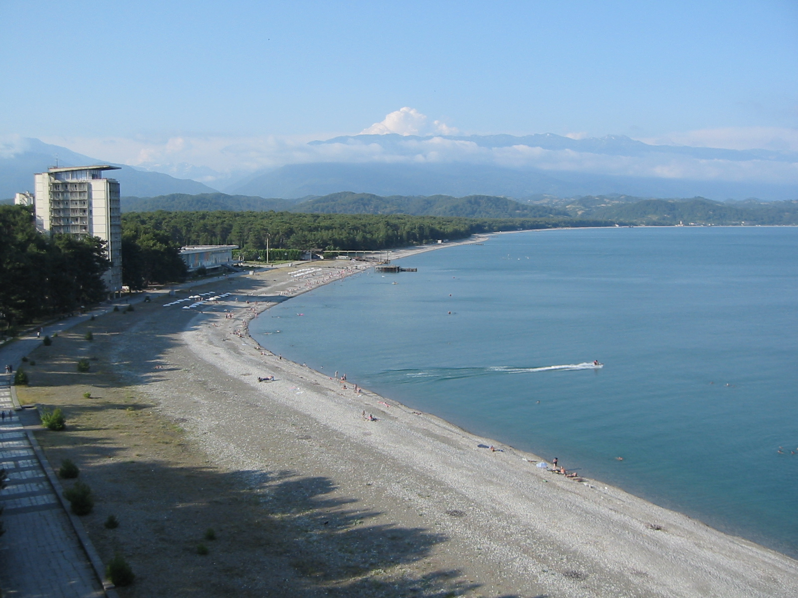 Pitsunda is a resort town in Abkhazia. It is situated on the shore of the Black Sea 25 km south from Gagra.